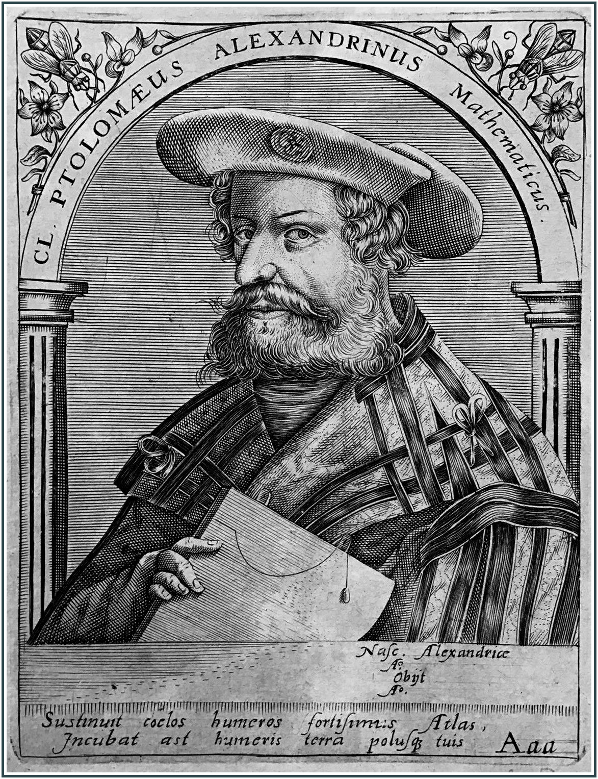 Claudius Ptolemäus, Picture of 16th century book frontispiece